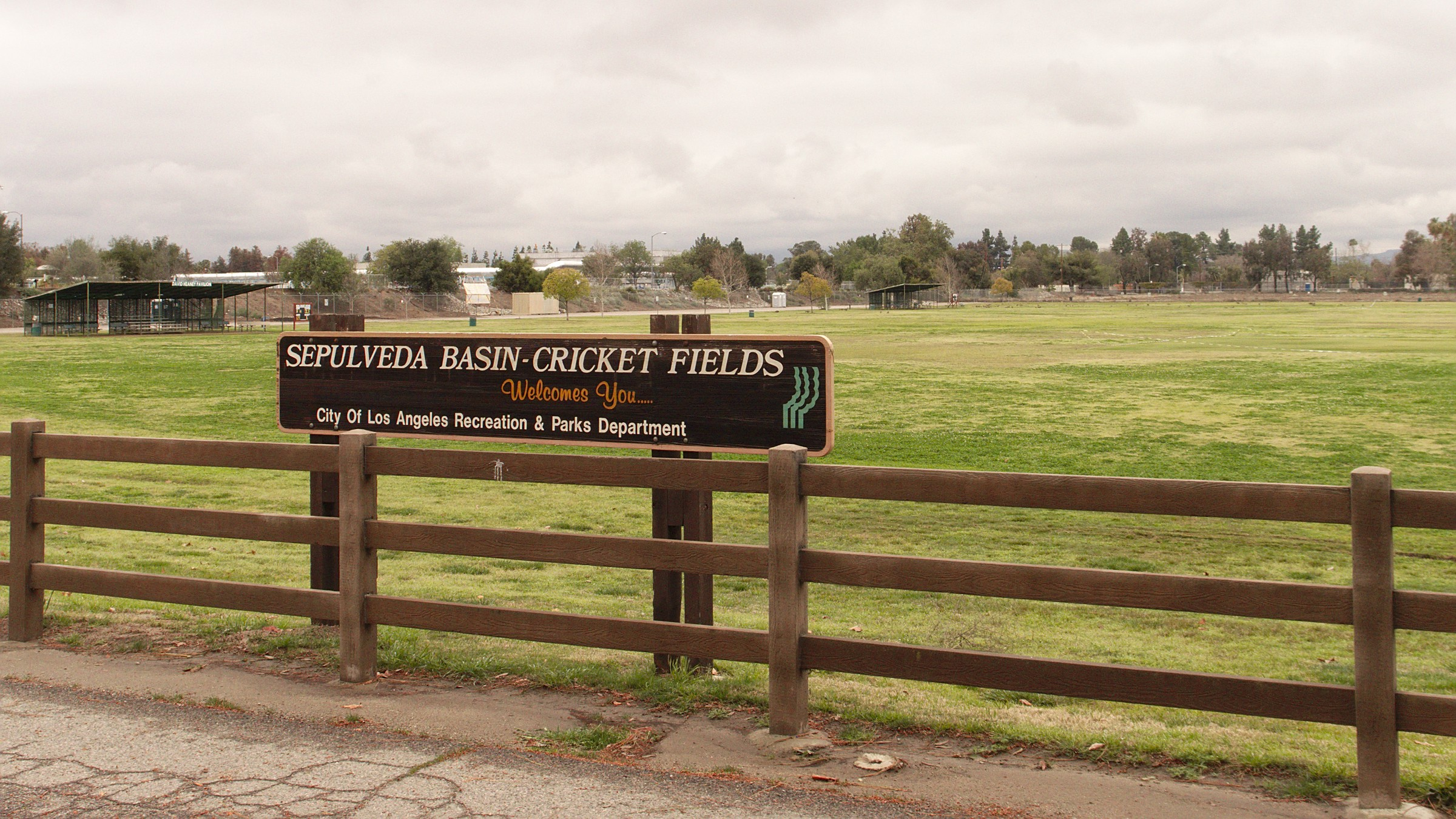 Sign welcoming you to the Leo Magnus Cricket Complex/Sepulveda Basin Cricket Fields, part of Woodley Park in Van Nuys, California.